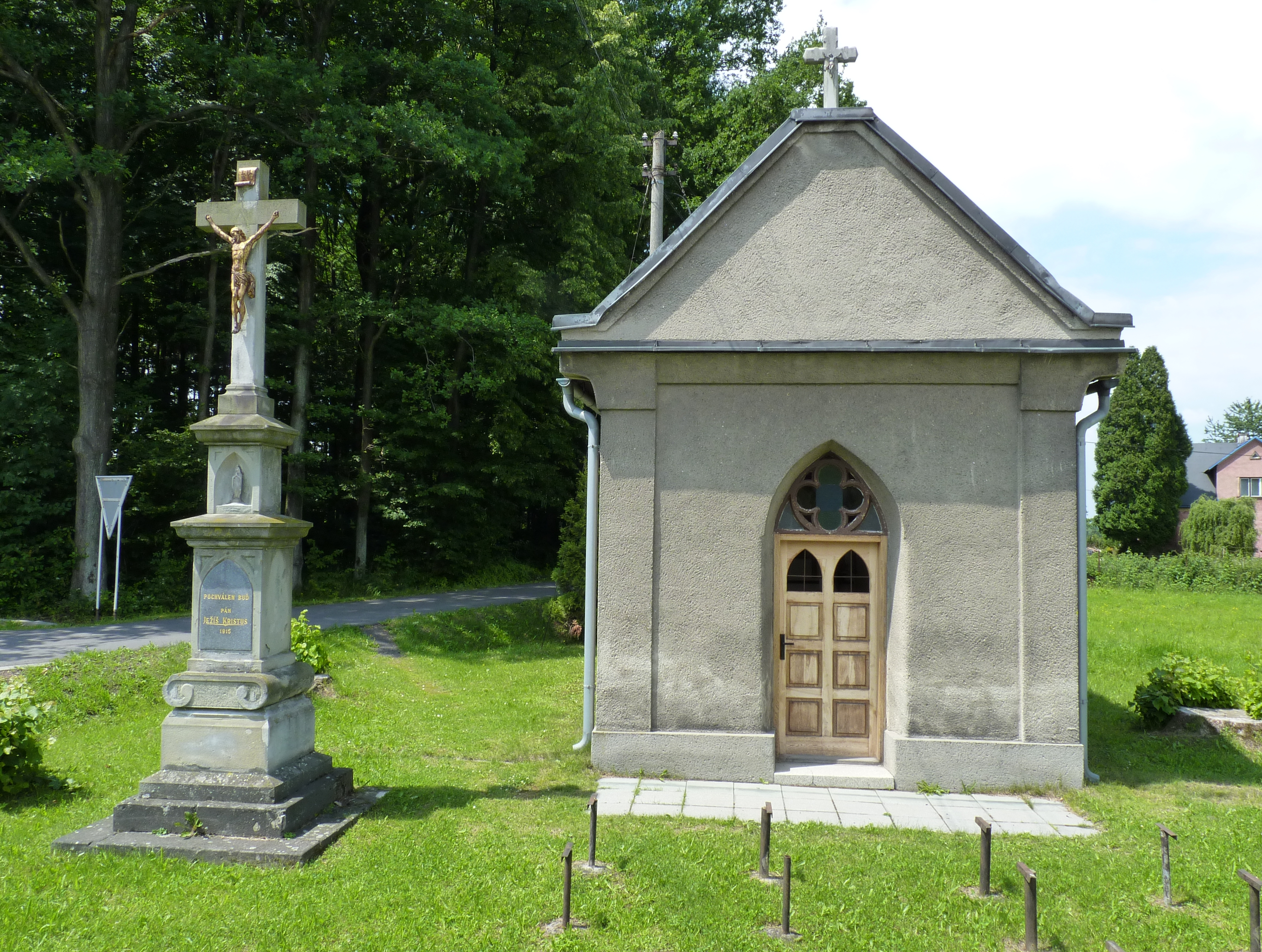 Vojkovice. Frýdek-Místek District, Moravian-Silesian Region, Czech Republic